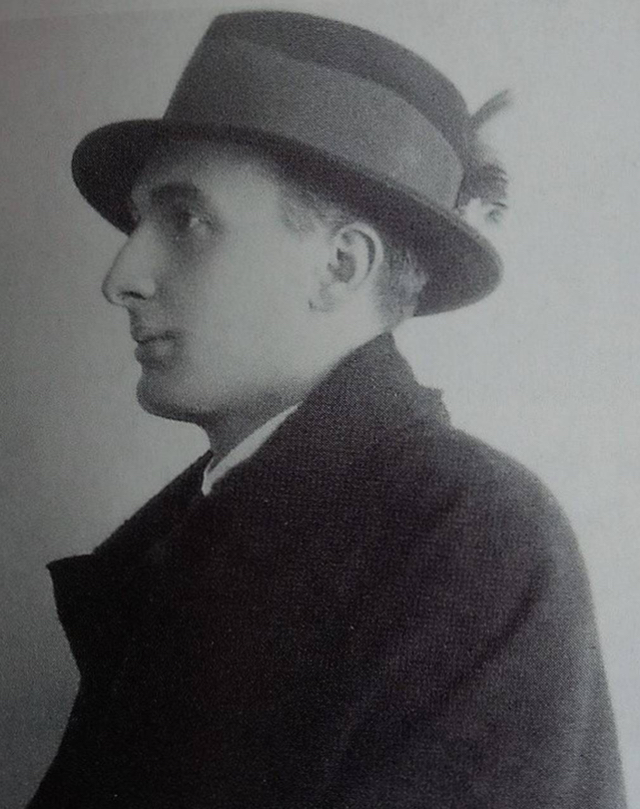 Alexander Mathé